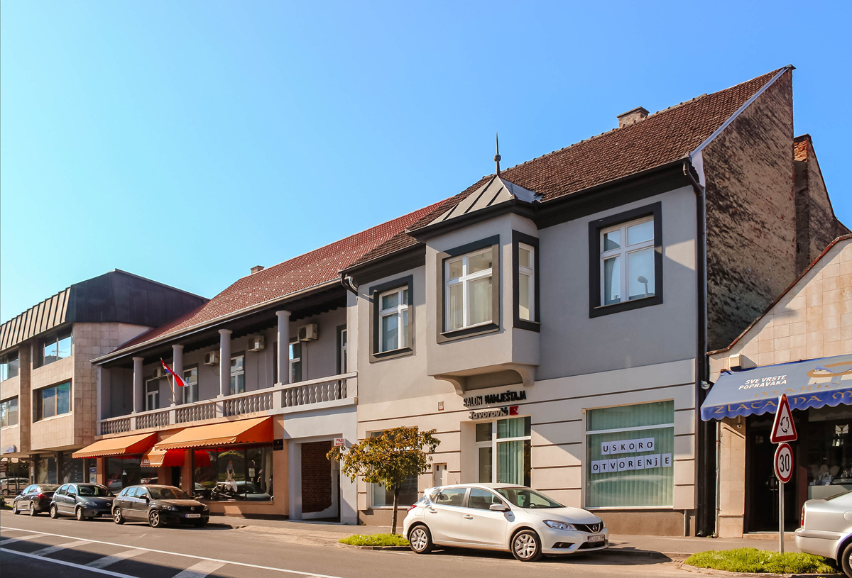 Slatina Croatia